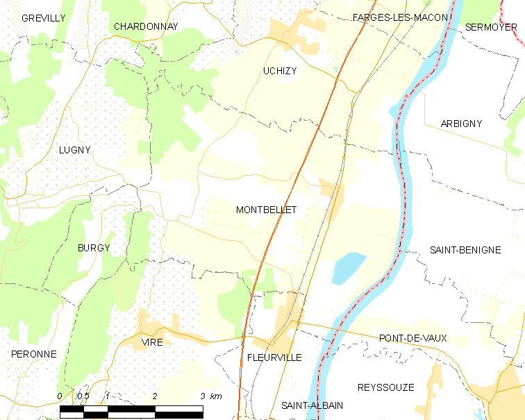 Map of French municipality